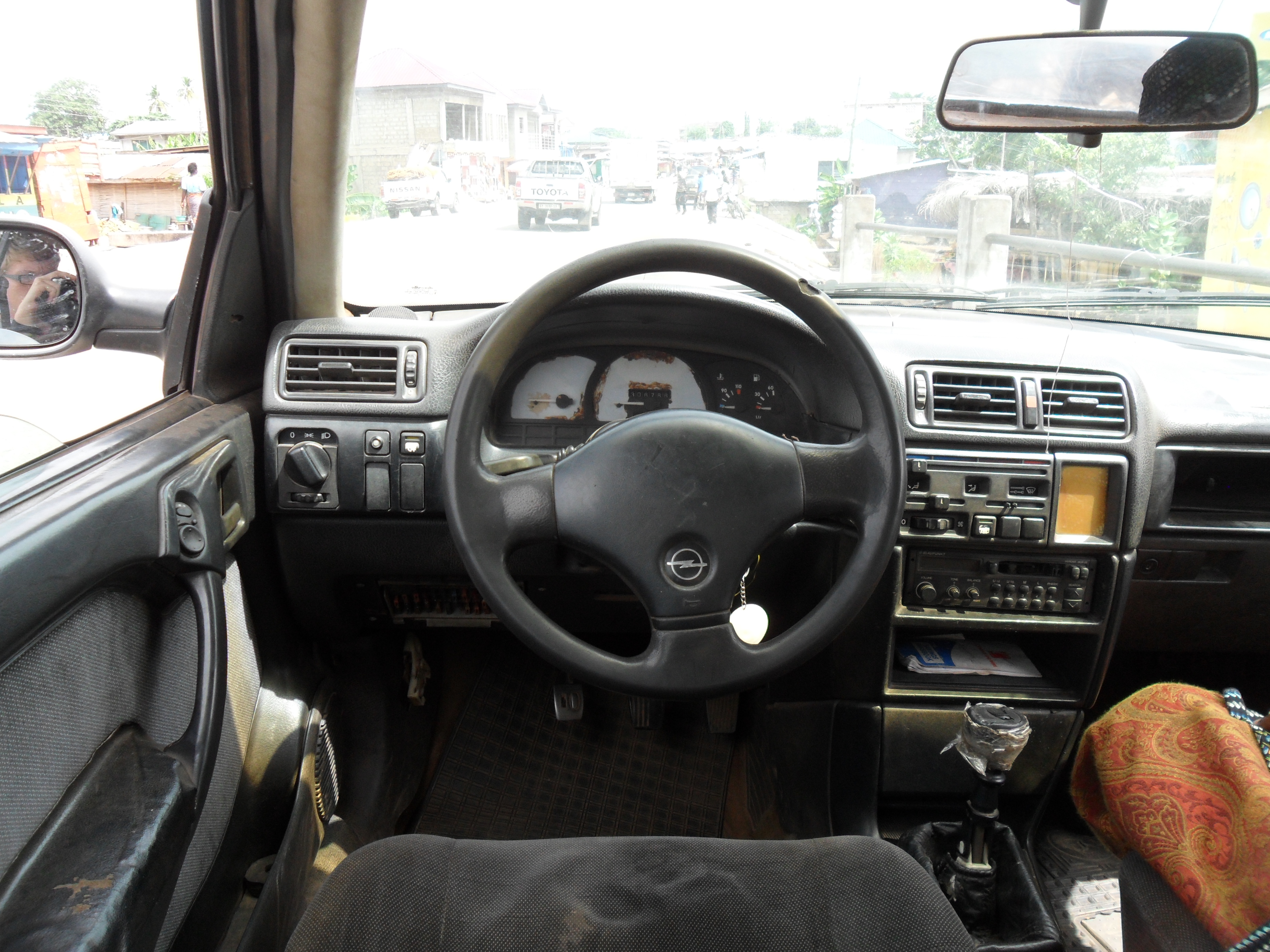 I like the styling of these pre-facelift Vectras or Cavaliers as we better know them. In particular I like the proper clock, which on this one is the yellow space to the right of the picture, like most of the car, knackered. As you can expect, nothing worked with this one- all the windows were jammed shut in the rather hot weather which made riding very uncomfortable. This one's done well to remain pretty original, most have been modified by Africans wanting a bit of individuality! Note the mileometer was on 306,766km, but it was stuck on that position, likely for a very long time, so I have a feeling it's past the half million mark at least. Of course none of the dials worked, so we were constantly on 0km/h, not that you can read any of the dials on this one- have a look at it! Looks like they've been scratched off or something which is a bit strange. Quite a nice Blaupunkt radio fitted, better than the usual Chinese rubbish in Ghana.